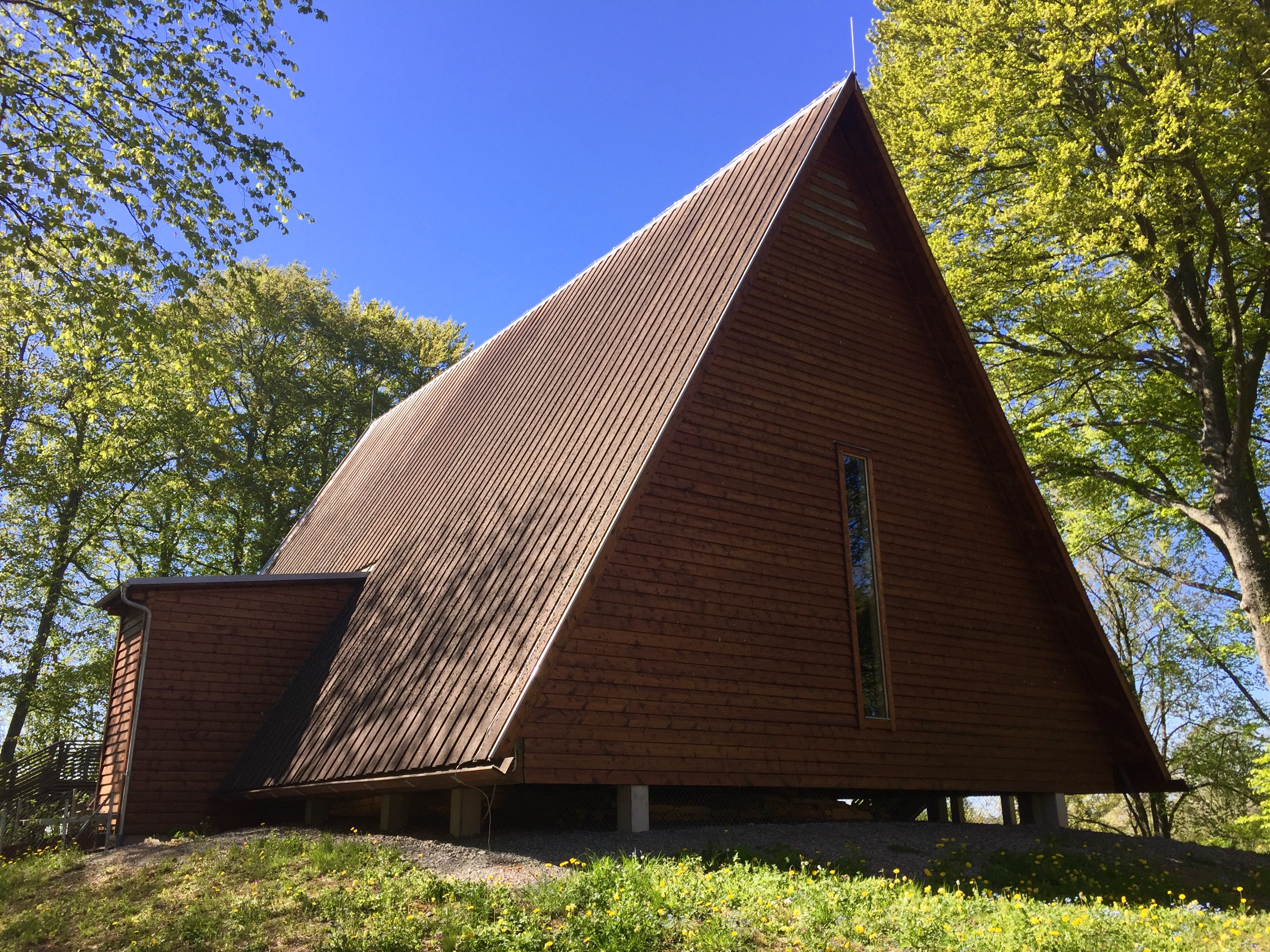 Close up of Kata gård